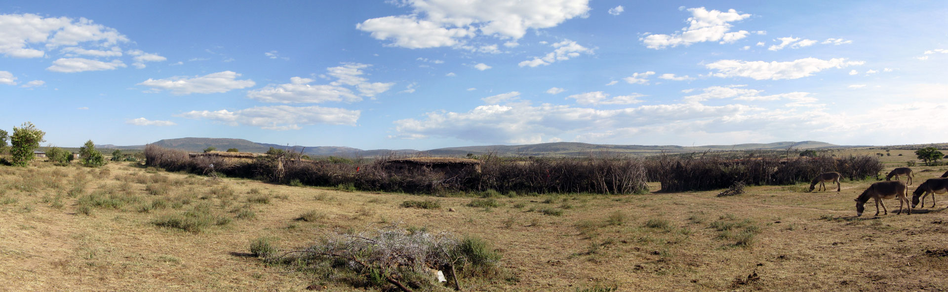 Maasai Manyatta – community made up of several huts enclosed by a fence (an enkang)